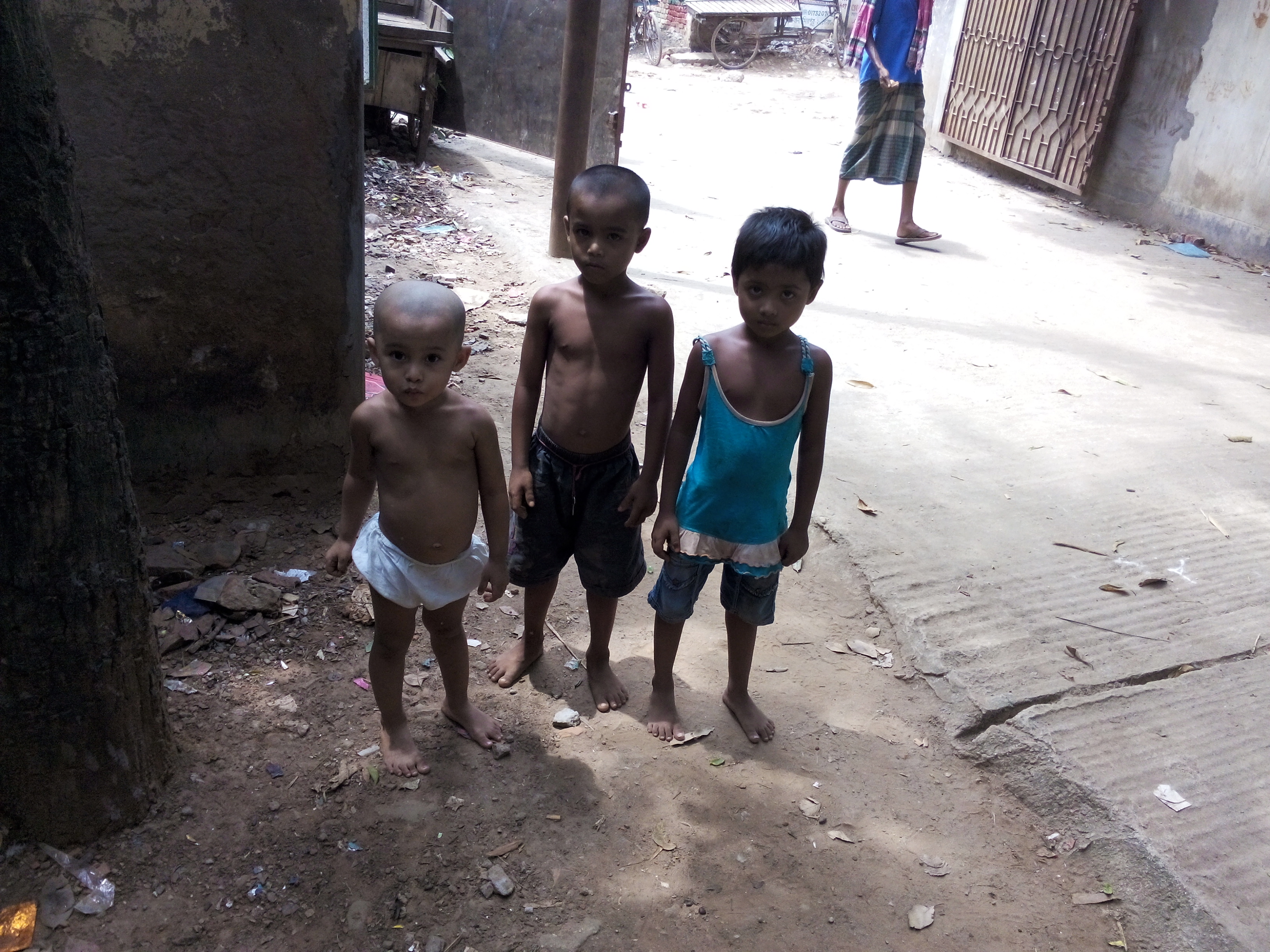 Being poor they have no well cloth or shoe